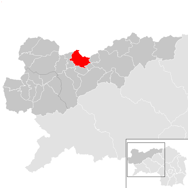 District Leoben